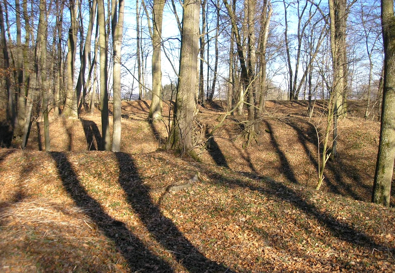 High Middle Ages Muehlhausen castle near Affing (Landkreis Aichach-Friedberg, Bavaria, Germany). Central castle, looking north east to the bailey.